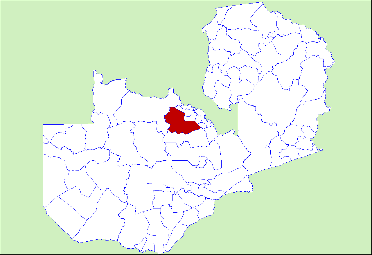 District locator in Zambia